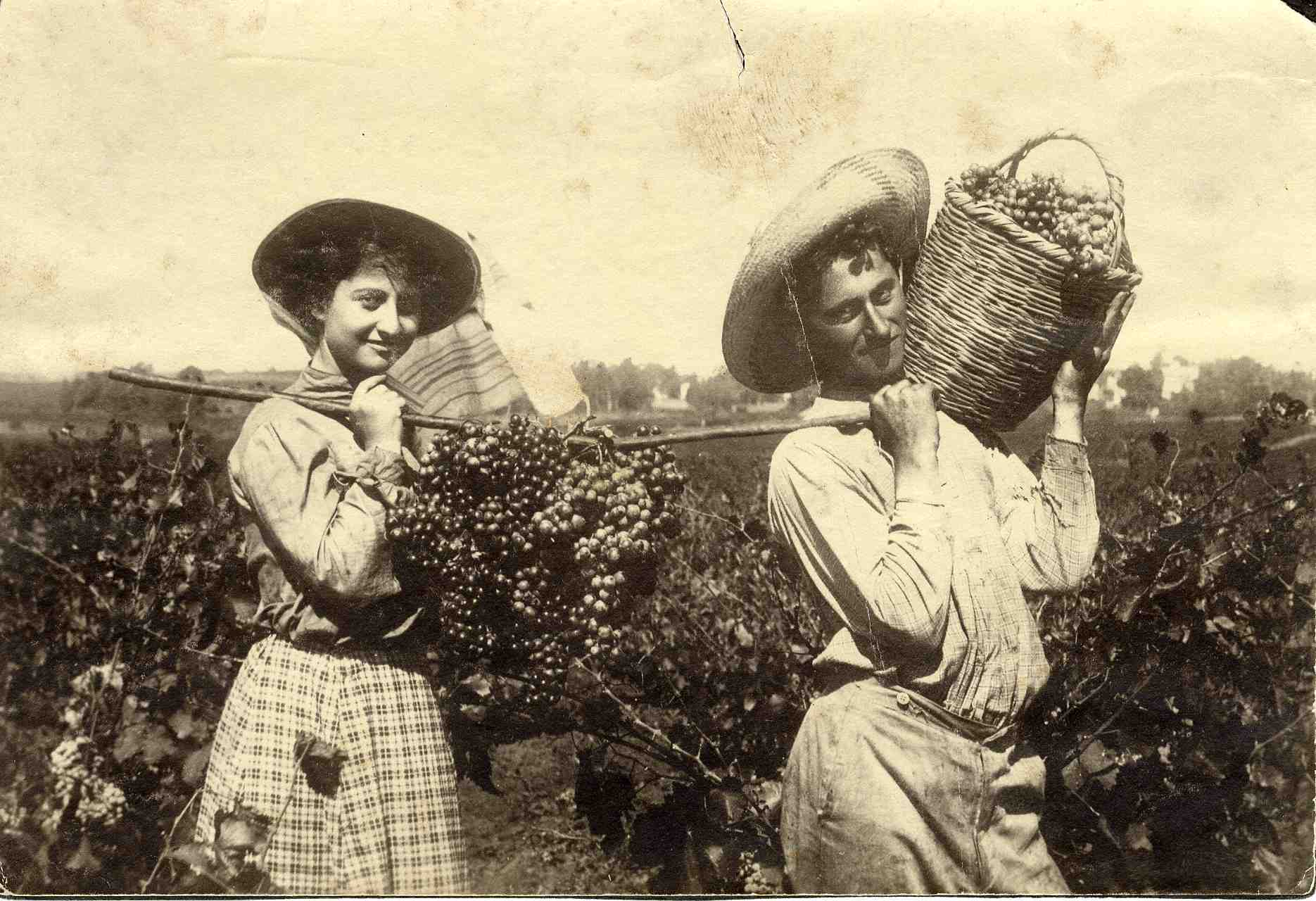 Agriculture in Israel